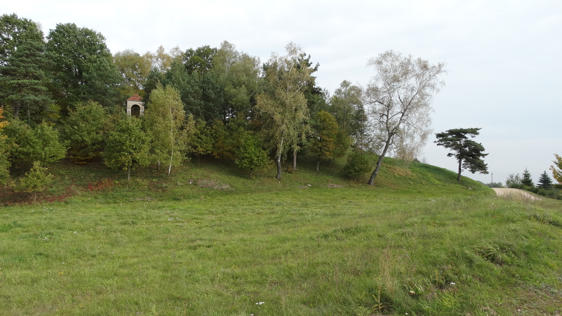 Olakalnis, Miroslavas, Alytus district, Lithuania